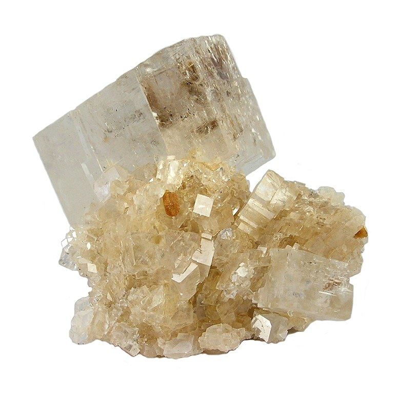 Magnesite Locality: Brumado, Bahia , Brazil Size: small cabinet, 6.6 x 6.5 x 4.4 cm Florencite (!!) on Magnesite Frankly, I think this specimen is worth the price just for the huge, sharp, complete magnesite ! But, to me the really interesting feature is the unusually large and fat 6mm florencite. This is an extremely rare species for the locality, and one of the largest such crystals I have seen